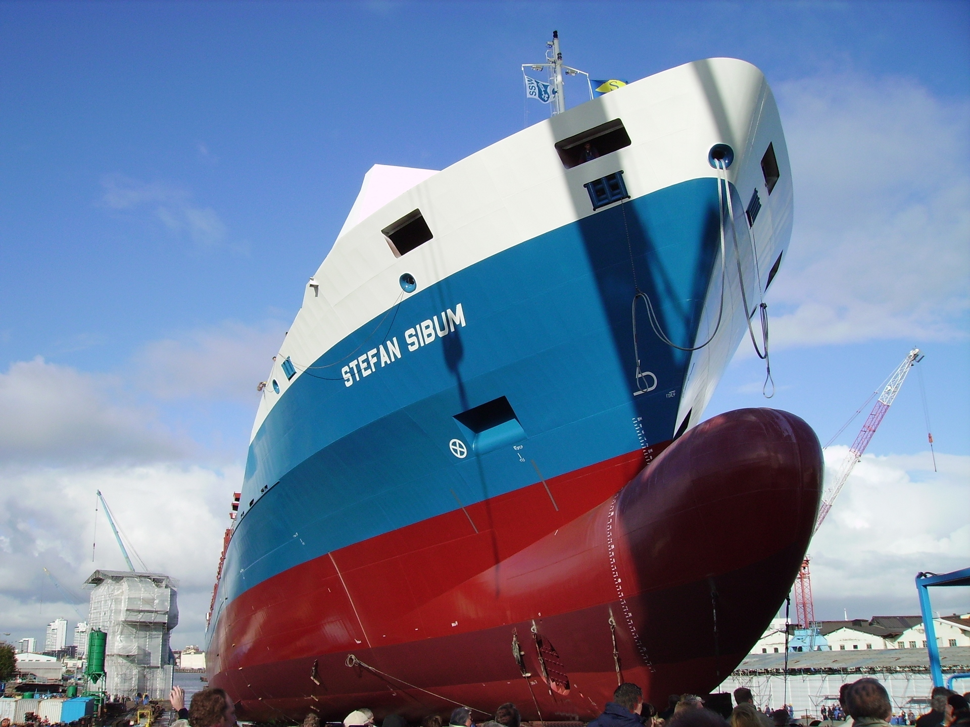 The container ship Stefan Sibum a few minutes before launching at the SSW shipyard in Bremerhaven